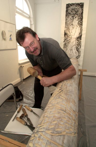 Peter Fetthauer, wood cut, „Adam and Eve“, 2001